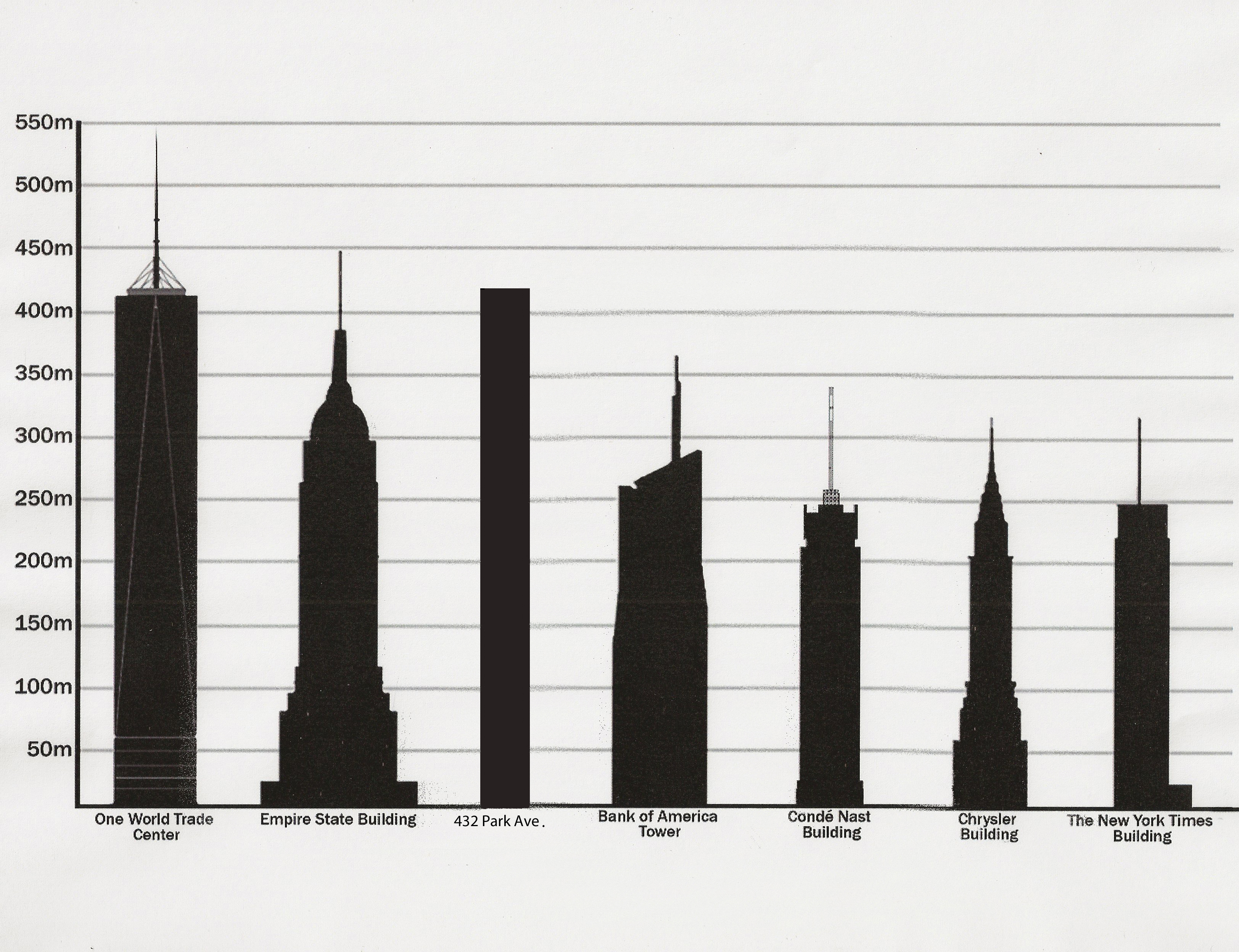 Tallest buildings in New York City, by pinnacle height, including all structures whether architectural or not.